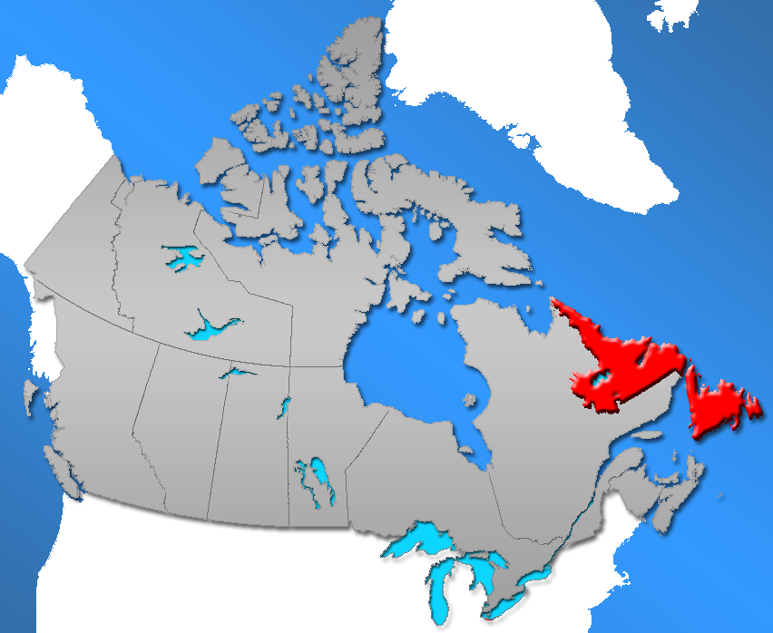 Province of Newfoundland and Labrador in Canada